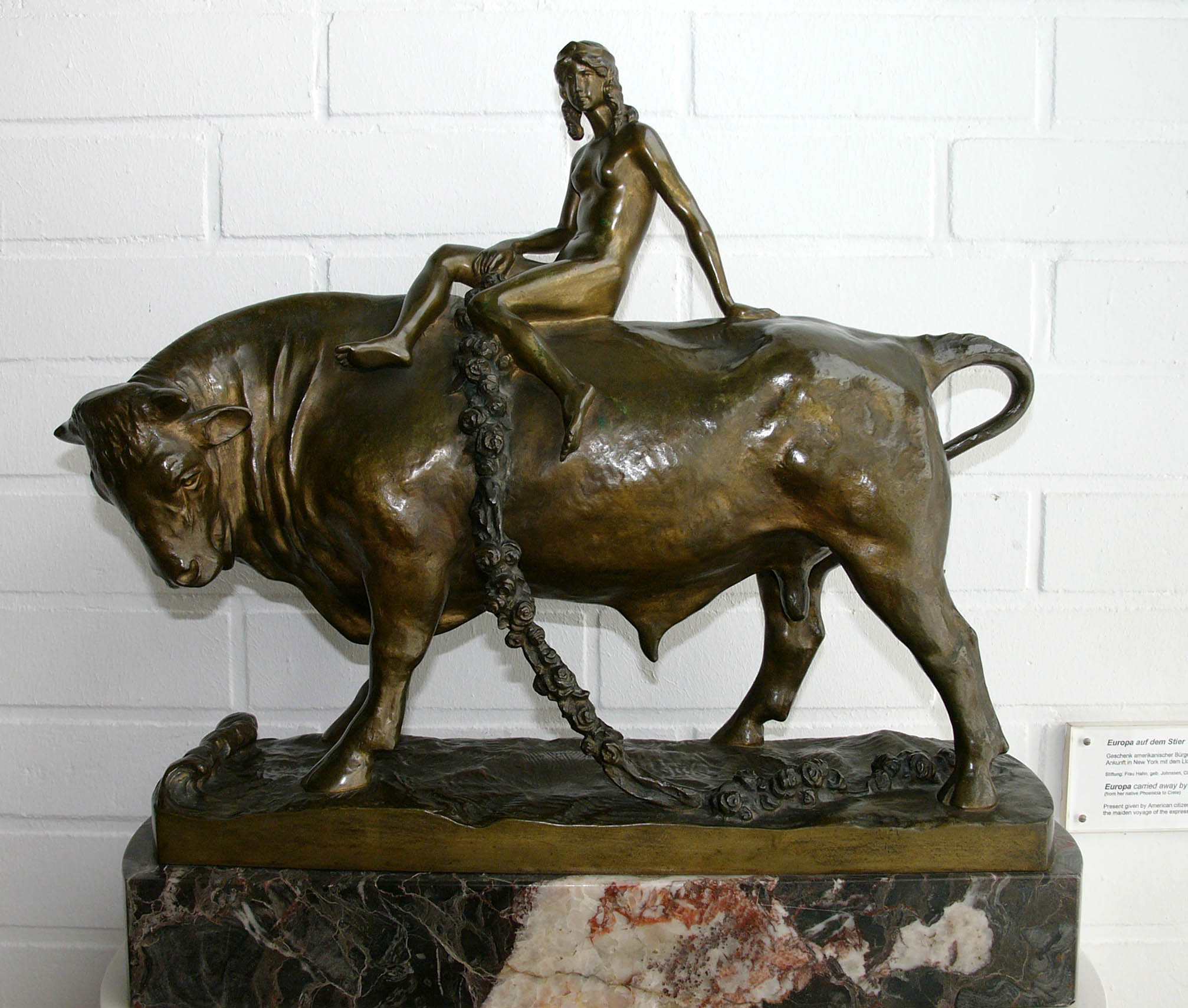 German Shipping Museum Native nameDeutsches SchifffahrtsmuseumParent institutionLeibniz AssociationLocationHans-Scharoun-Platz 1 27568 Bremerhaven GermanyCoordinates53° 32′ 24.36″ N, 8° 34′ 37.2″ E Established5 September 1975Web pageDeutsches SchifffahrtsmuseumAuthority control : Q455354 VIAF: 128715457 ISNI: 0000 0001 2256 5668 LCCN: n50065866 NLA: 35745010 GND: 2008892-9 WorldCat Europa carried away by a bull (bronze sculpture by Lilli Finzelberg). Present given by American citizens to captain Johnssen after completing the maiden voyage of the express-steamer EUROPA in 1930.